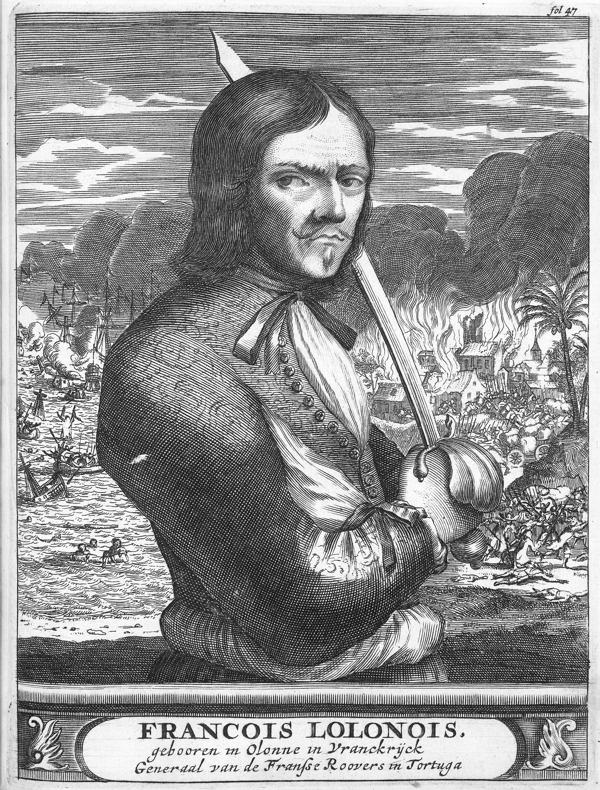 François l'Olonnais from "De Americaensche Zeerovers"